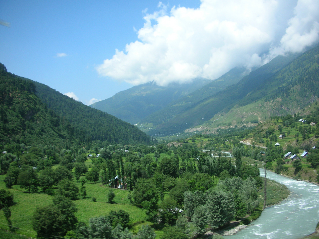 southern part of the Kashmir Valley, Jammu and Kashmir, India they call it paradise on earth and i don't see a reason why it shouldn't be called so! one of the most picturesque place i've ever seen... no wonder india and pak,both fight over it!